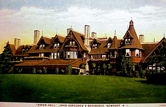 Aspen Hall (Rockhurst) Mansion Postcard. Newport, RI.